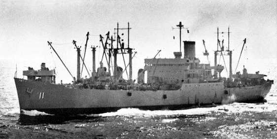 The U.S. Navy stores ship USS Polaris (AF-11) operating off Korea, in 1953.